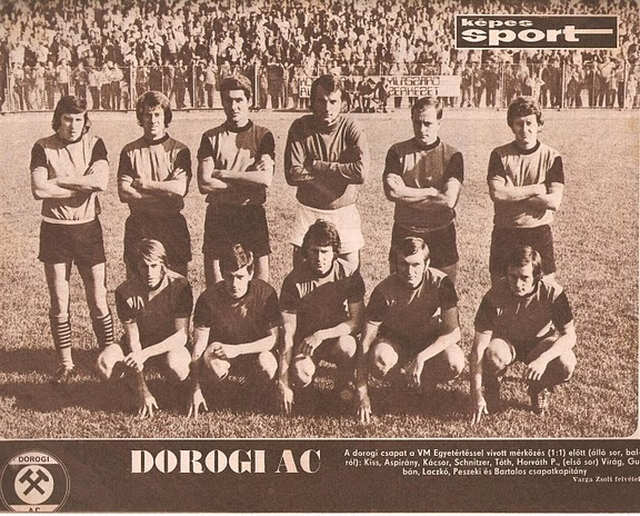 The team again in the first class level after seven years